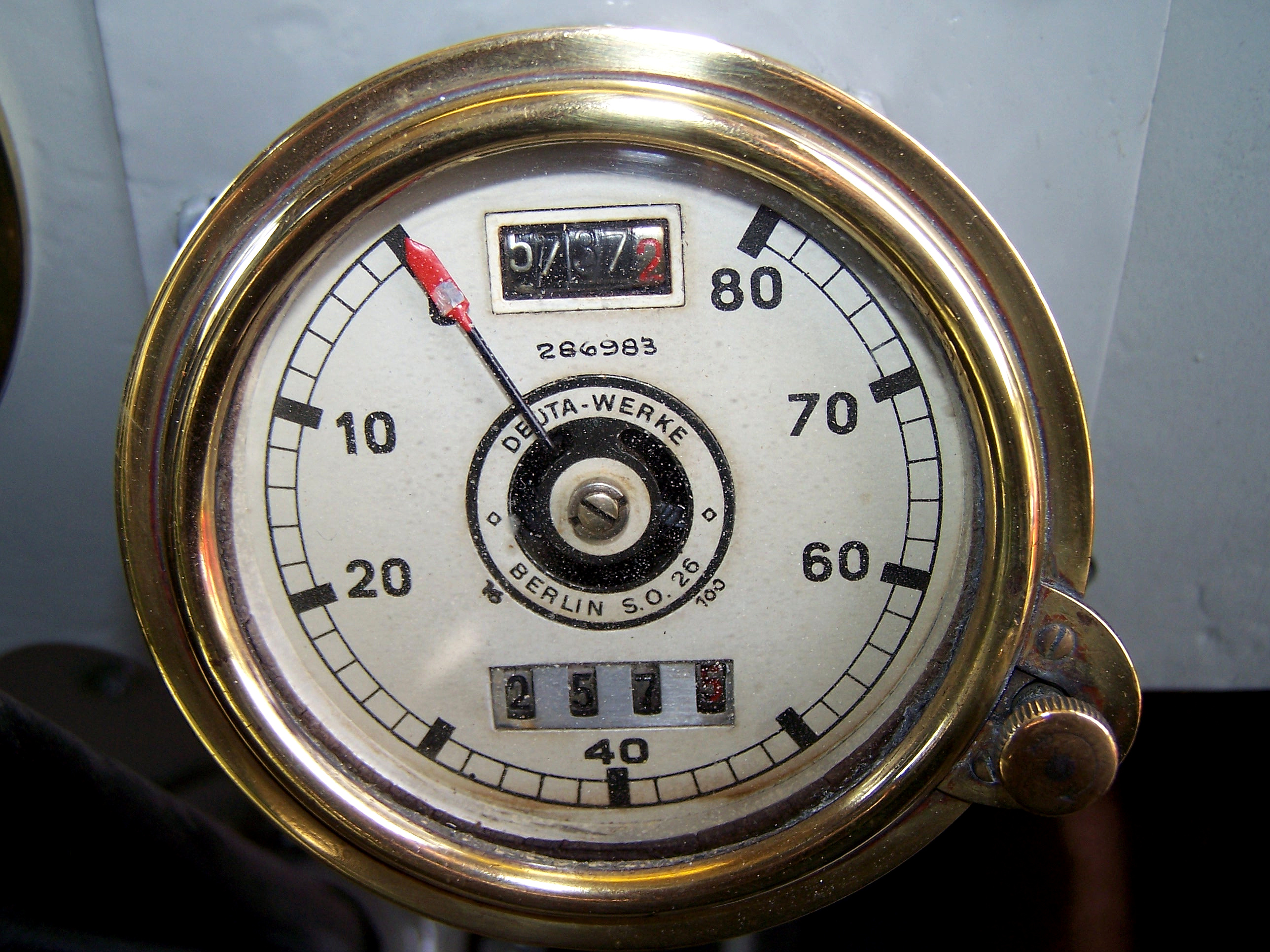 Deuta-Tachometer of an historical post bus manufactured by DAAG in 1925